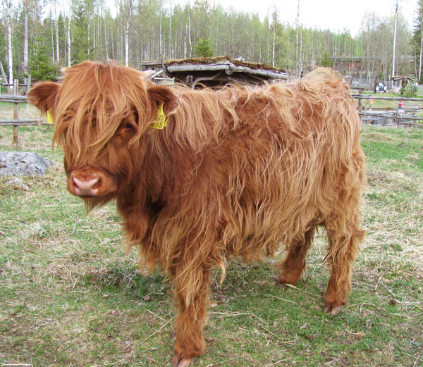 Highland Cow in Ysitien Lemmikki Zoo, Finland